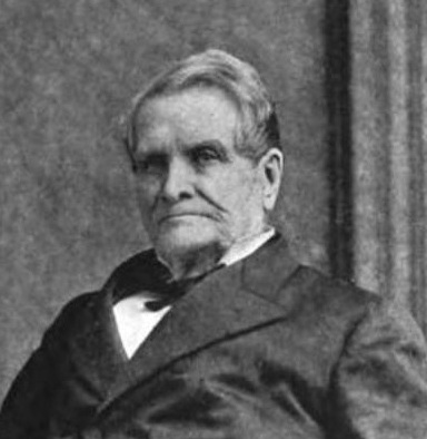 Amasa J. Parker, New York Judge and Congressman